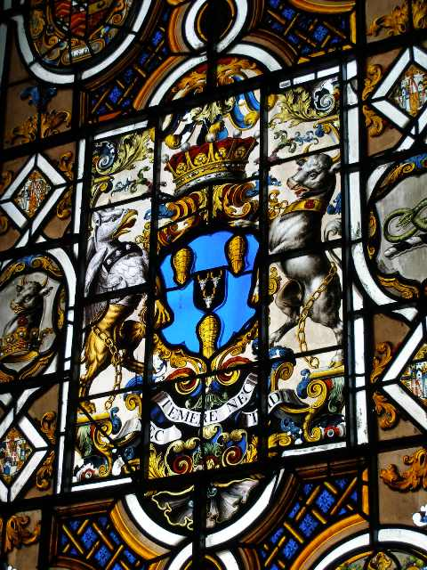 (Victorian ?) stained glass in Mereworth Church, Kent. Arms of John Fane, 7th Earl of Westmorland (1685-1762) of Mereworth Castle. Fane with an inescutcheon of pretence of Cavendish for his heiress wife Mary Cavendish (1700-1778), only daughter and heiress of Lord Henry Cavendish, MP (by his wife Rhoda Cartwright, a daughter of William Cartwright, of Aynho, Northamptonshire), 2nd son of William Cavendish, 1st Duke of Devonshire